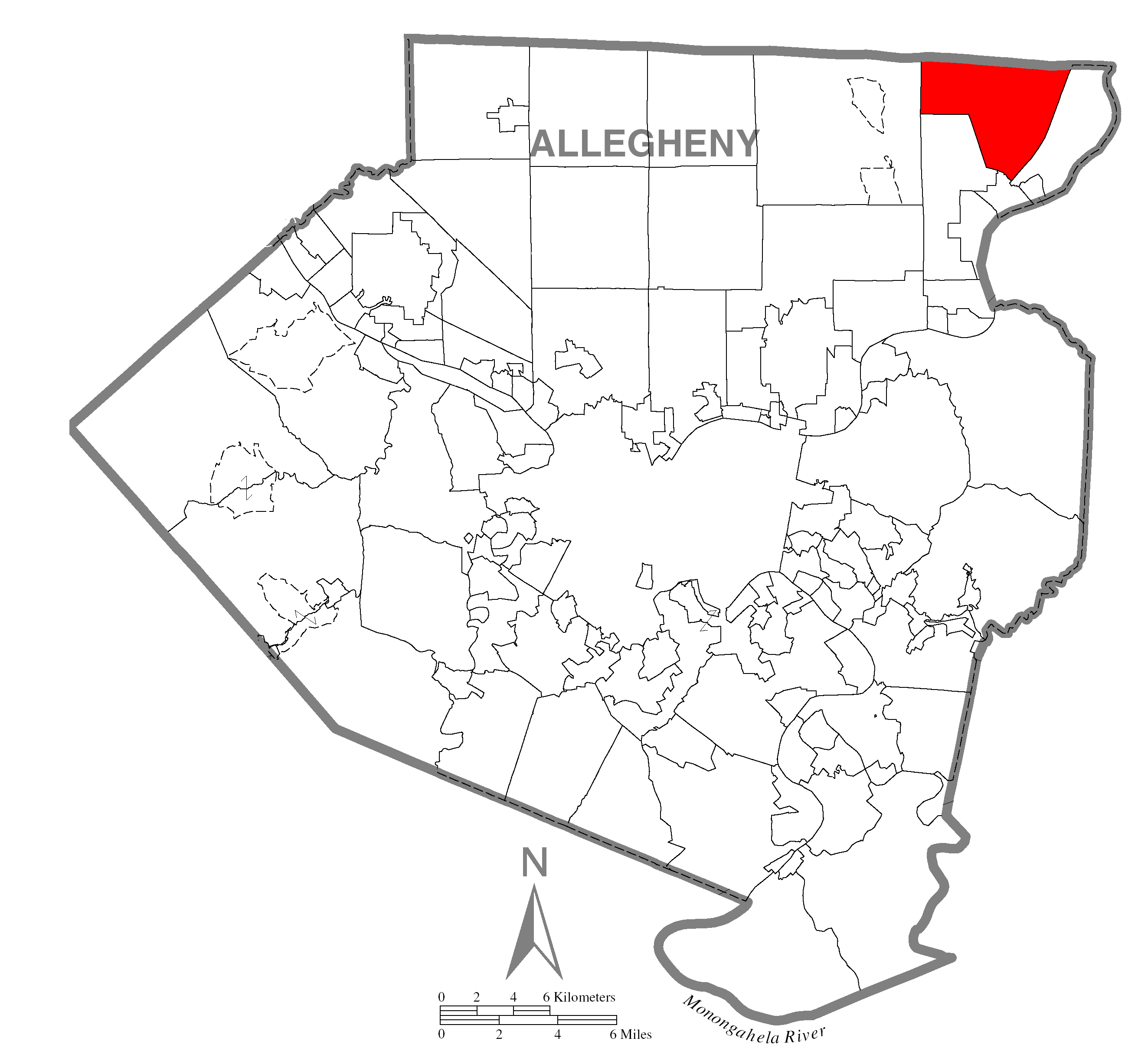 A map of Allegheny County showing Fawn Township, Pennsylvania (alternate) highlighted on the map.